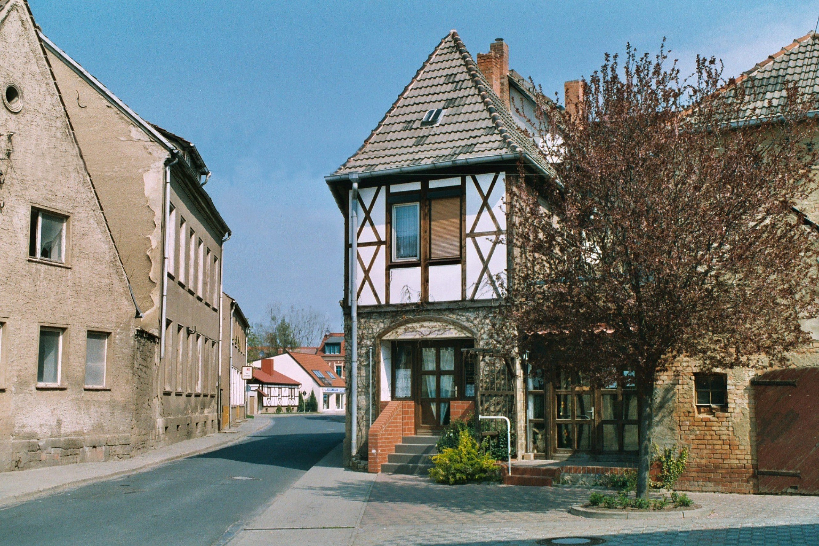 Gatersleben (Seeland), the "Lange Straße" before reconstruction